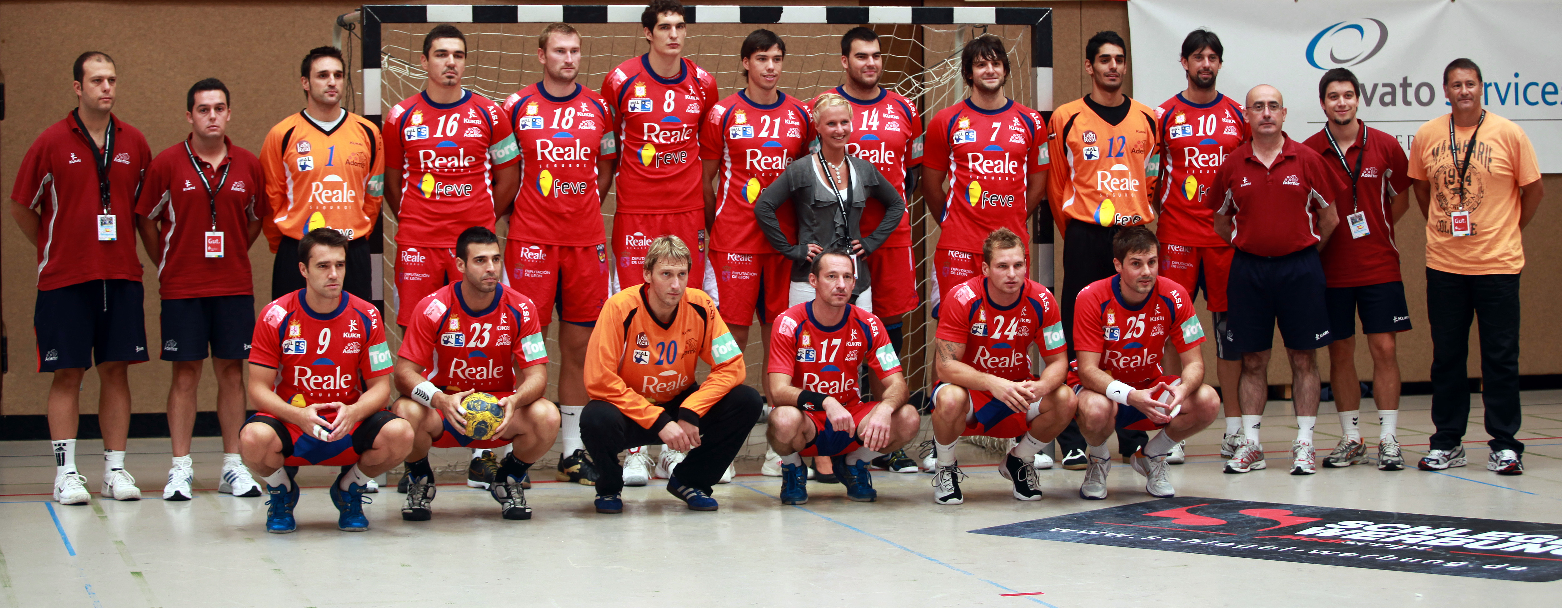 The team of Ademar León, on August 15th, 2010 in Ehingen (Germany), during the Schlecker Cup 2010.